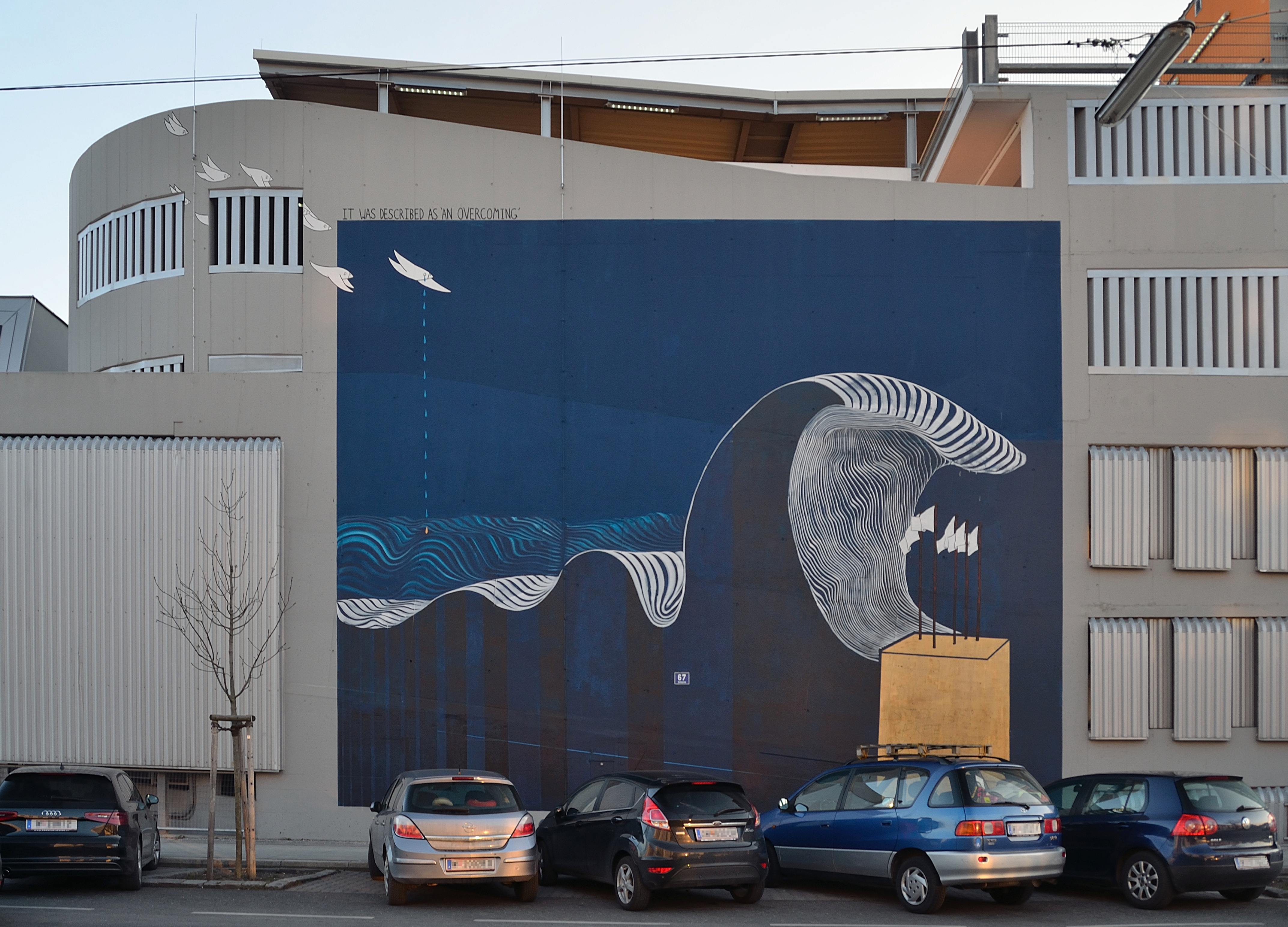 Street art by Know Hope and 2501 at car park building near the U6 station Siebenhirten in Liesing, Vienna.